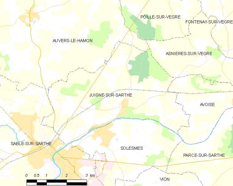 Map of French municipality